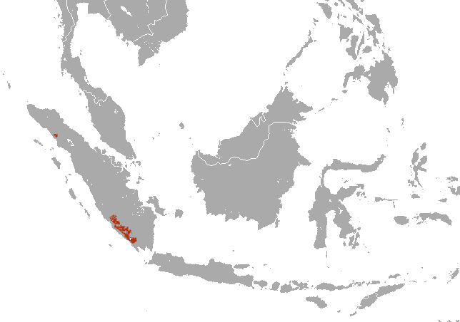 Sumatran Striped Rabbit (Nesolagus netscheri) range